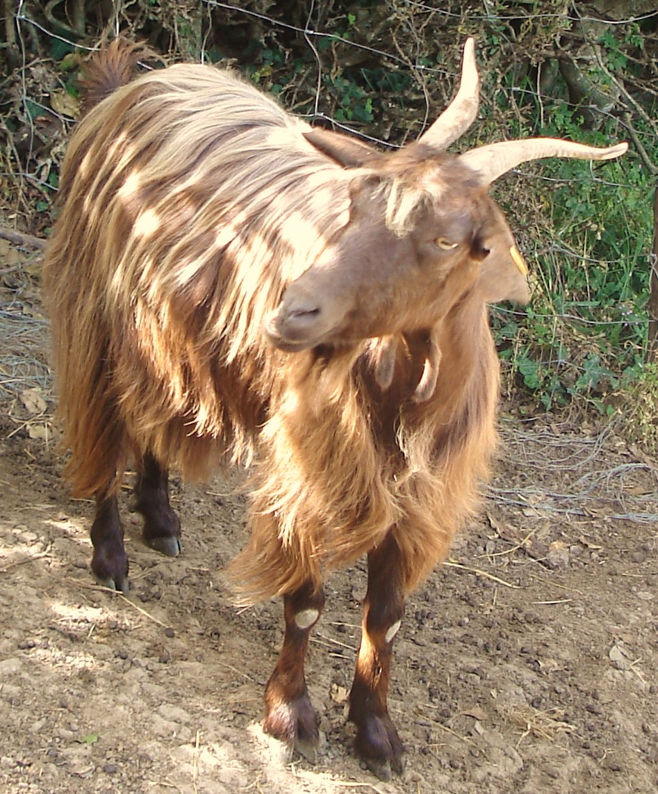 Messinese Goat Buck